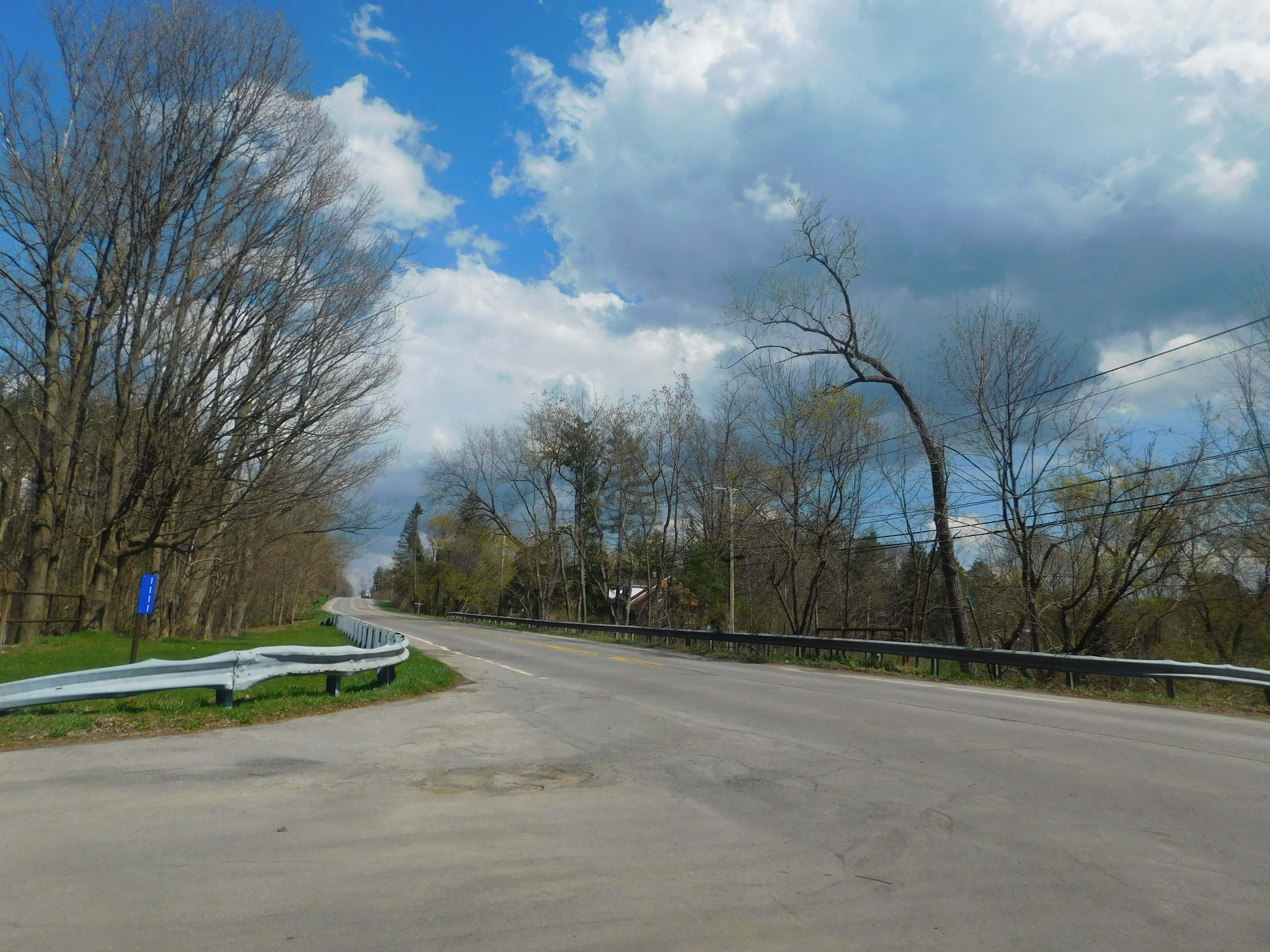 Erie County Route 574 in Elma, New York from the tracks once served by the Pennsylvania Railroad.